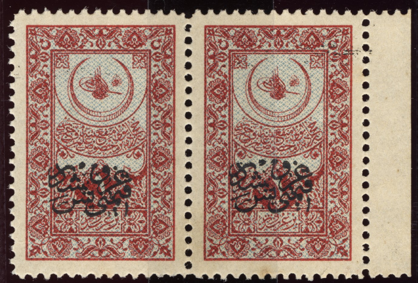 Revenue stamp (20 pa on 1pi) for financing the construction of Hejaz Railway in the Ottoman Empire. Listed as No. 26 in W. McDonald's Revenues of Ottoman Empire and Republic of Turkey.